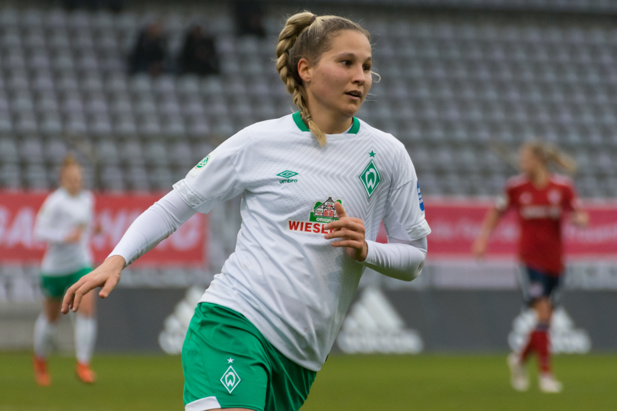 Sabrina Horvat during the Bundesliga match vs FC Bayern